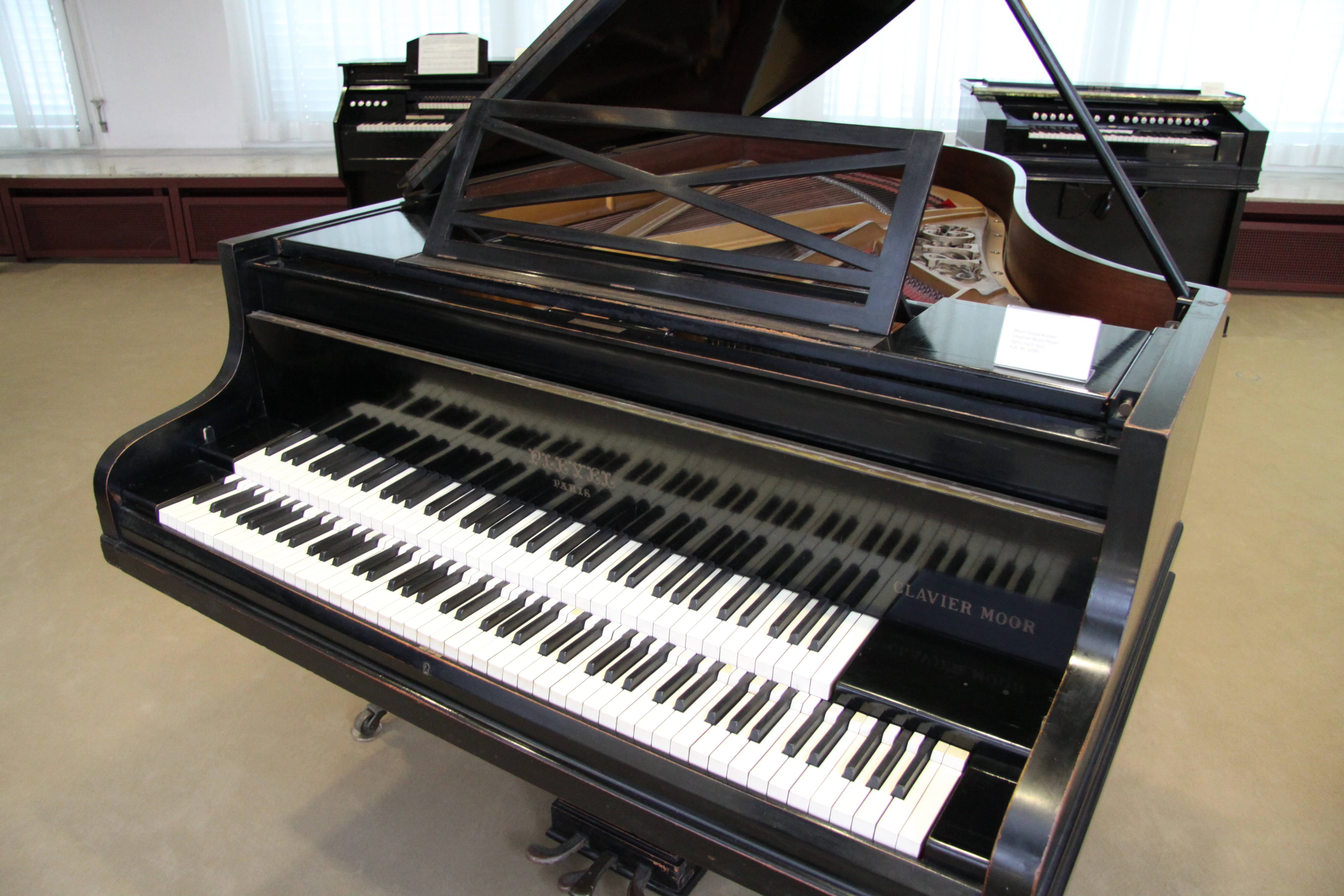 Pleyel piano (Paris, after 1927) with two keyboards at the MIM, Berlin, Kat. Nr. 5266. As the lettering ("Clavier Moor") on the right side indicates, this kind of instrument was invented by Emánuel Moór; it is also called Emánuel Moór Pianoforte.